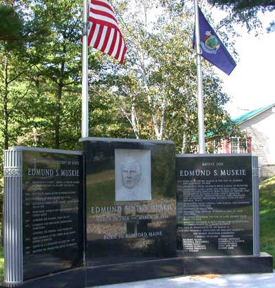 Memorial to Edmund Muskie in Rumford, Maine (taken Sept. 22, 2004)